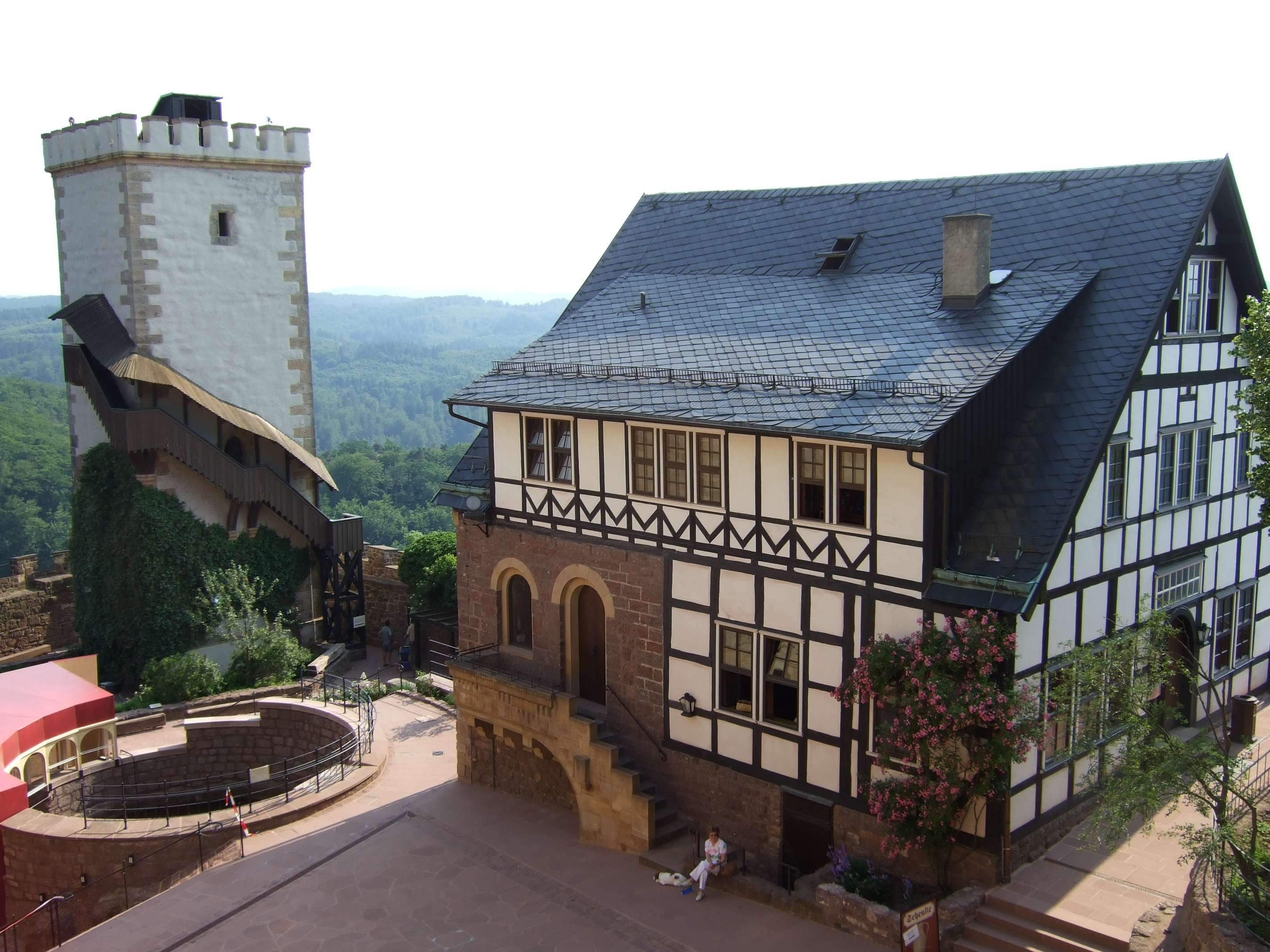 The Wartburg tower as seen from the main building